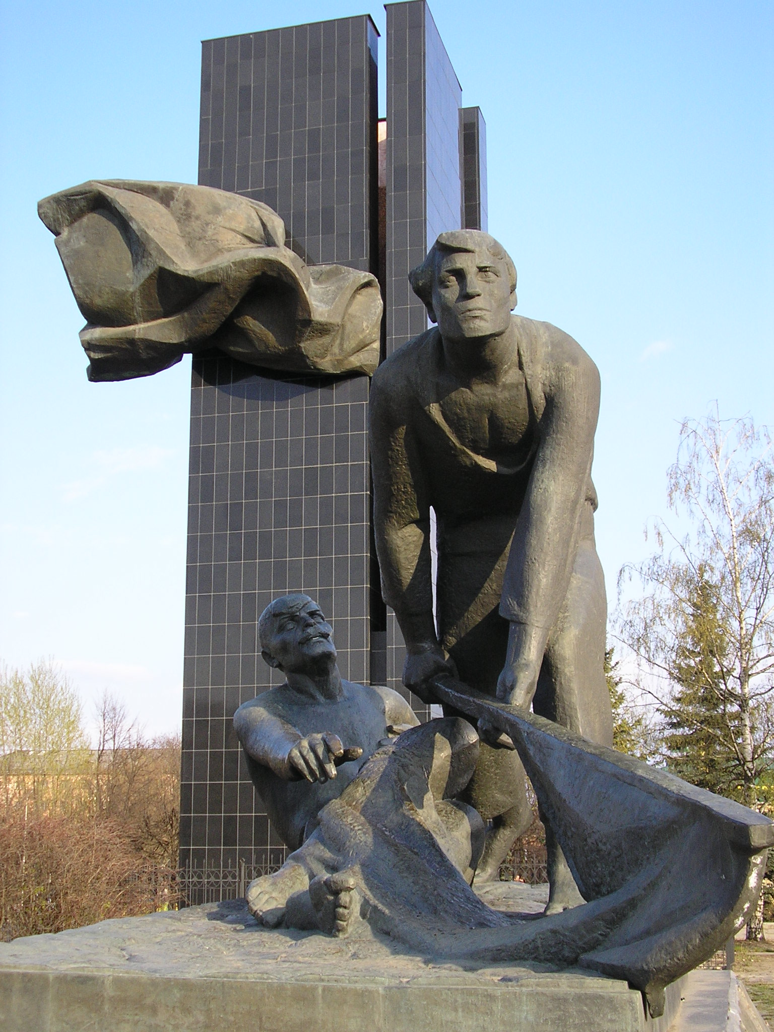 Revolution Square (russian: Ploschad revolutsii, Площадь Революции) in Ivanovo.